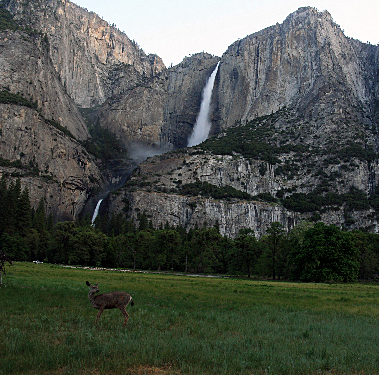 California Mule Deer, Odocoileus hemionus californicus and Yosemite Falls at a very early morning.